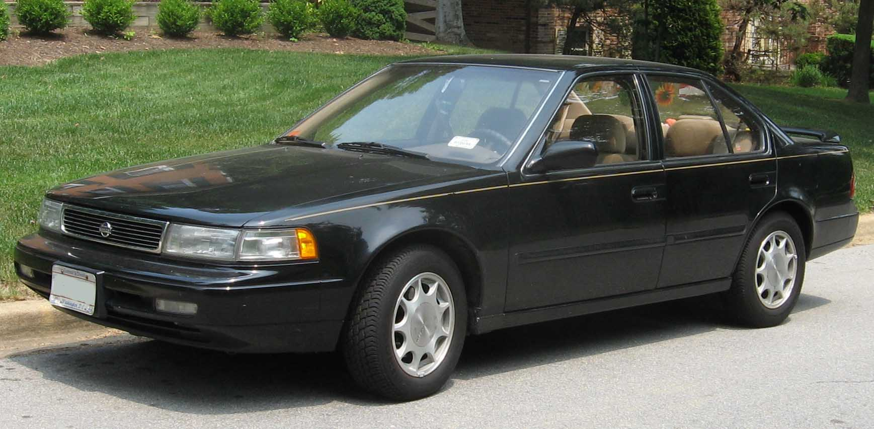 1992-1994 Nissan Maxima photographed in Fort Washington, Maryland, USA.